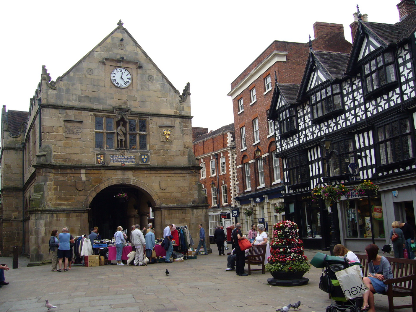 Shrewsbury Market square